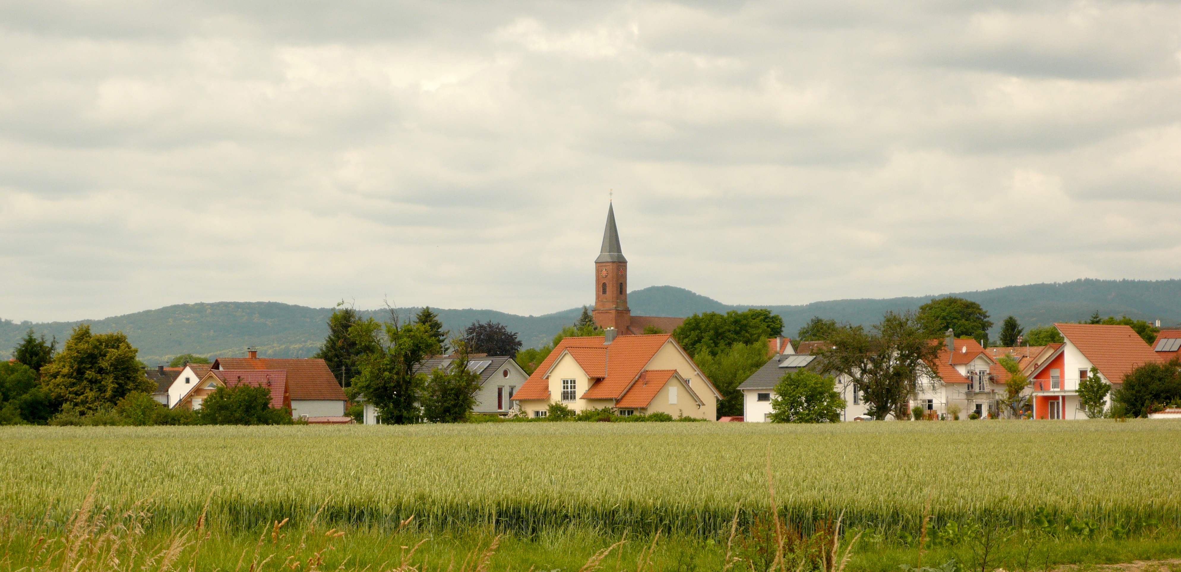 Village of Kapsweyer, Germany